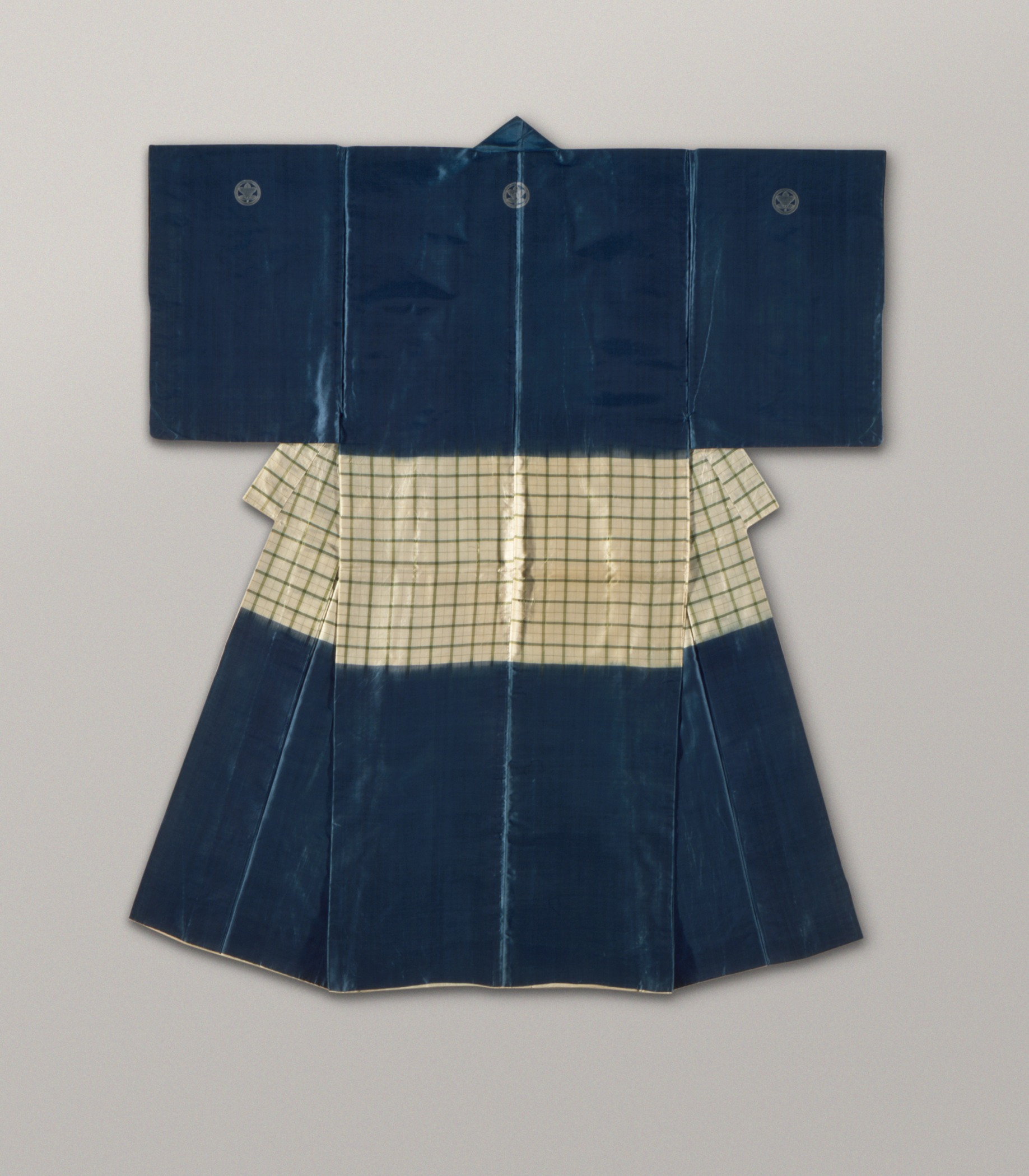 Japan, late Edo period, circa 1800-1830 Costumes; principal attire (entire body) Silk; ikat (kasuri) dyeing Purchased with funds provided by the Director's Roundtable (M.88.93.1) Costume and Textiles